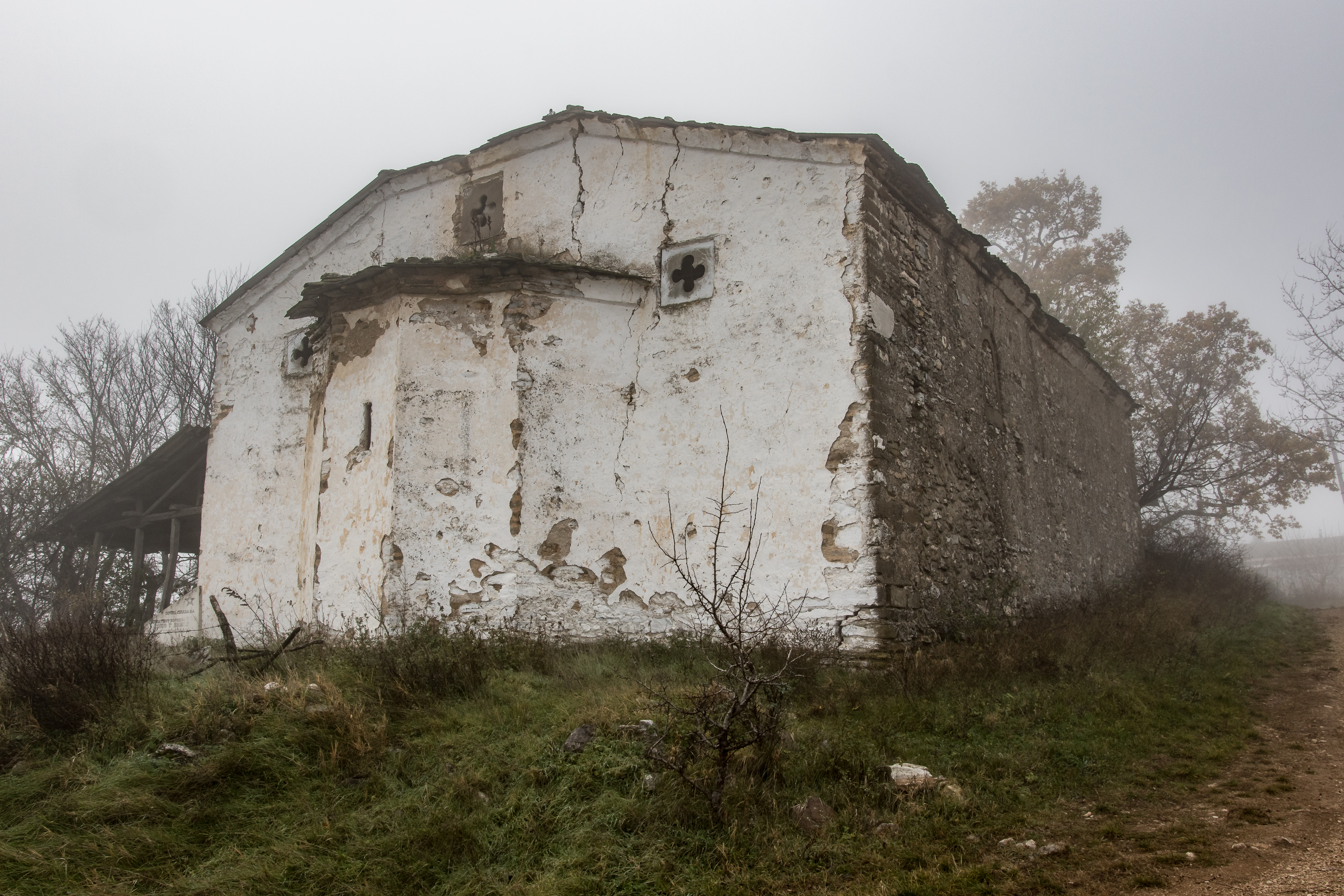 Exterior look of the St. Atanasij church in Dolno Chichevo, Gradsko, Macedonia.